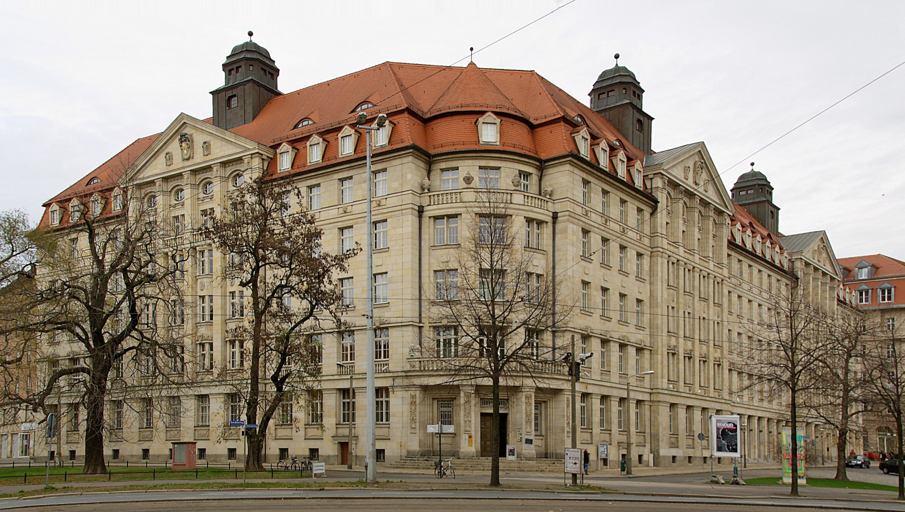 Former District of Ministry for State Security in Leipzig, today Memorial Museum “Runde Ecke”